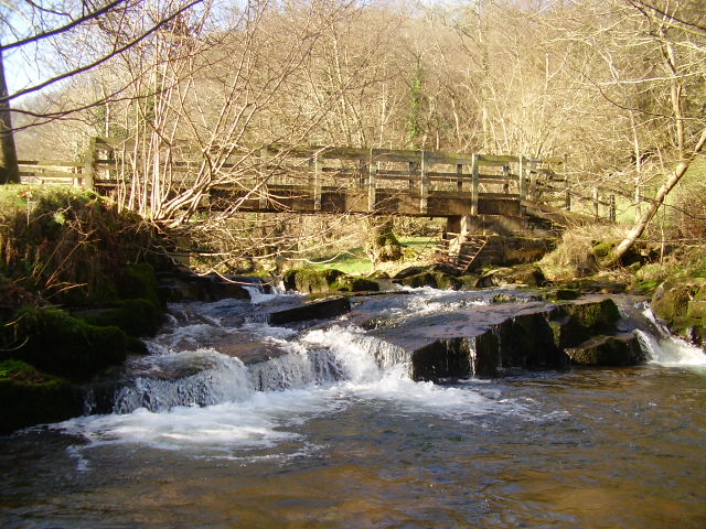 Afon Crawnon, footbridge This quite new bridge was a nice surprise after descending a steep, rocky footpath with thorny blackberry tendrils trying to catch hold of me.